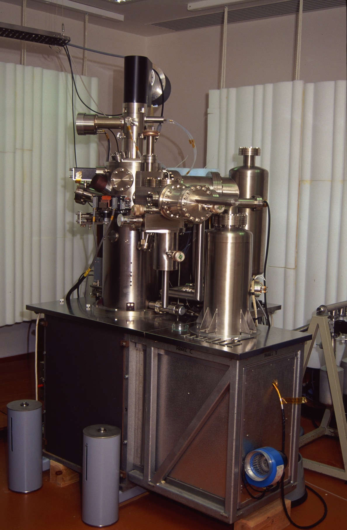 Dedicated STEM VG 501 equipped with C_s corrector and PEEL spectrometer